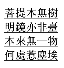 own scan